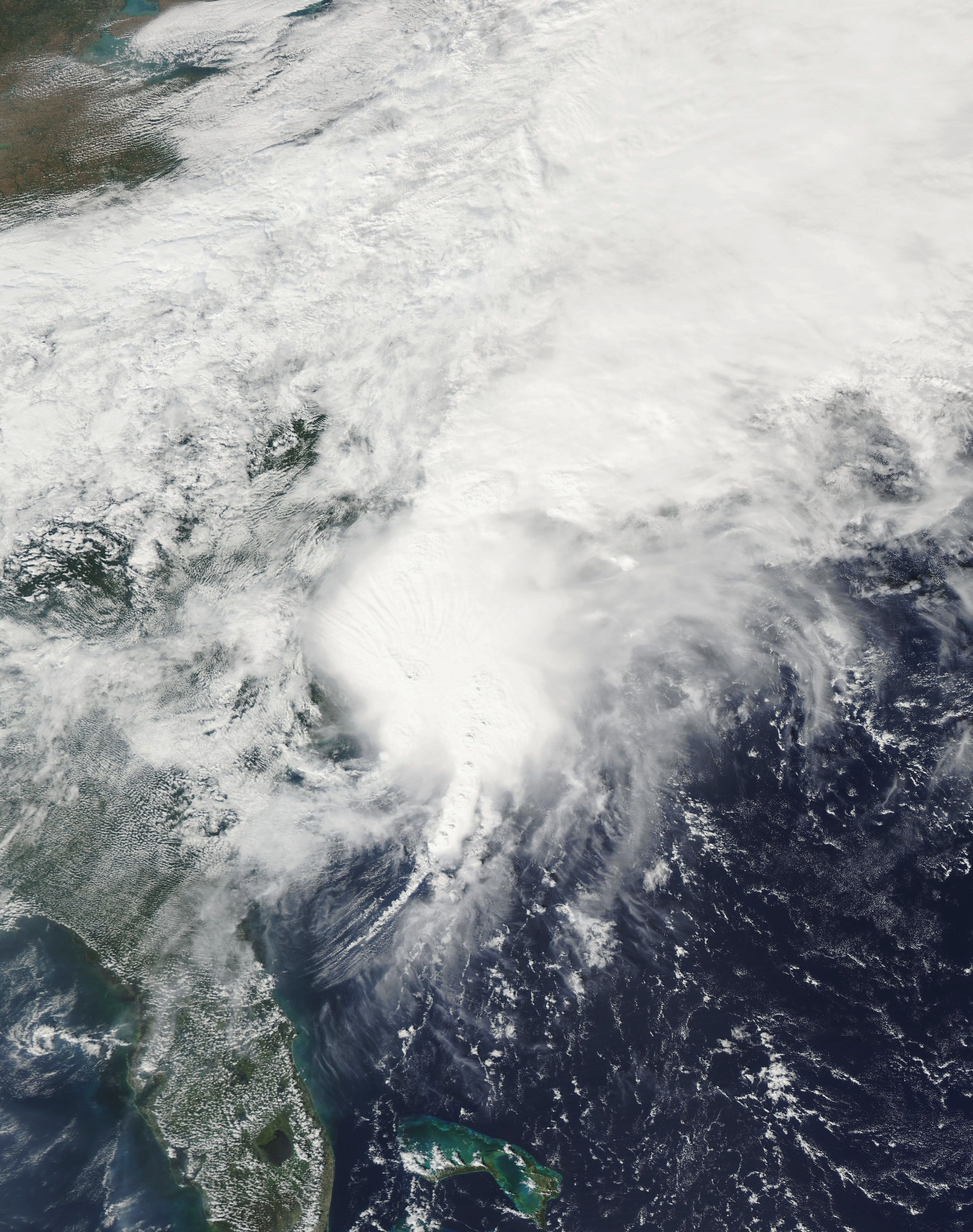 Tropical Storm Kyle near landfall in North Carolina on October 11, 2002